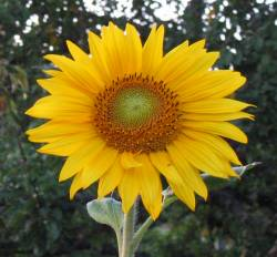 Photo of a blossom of a sunflower.